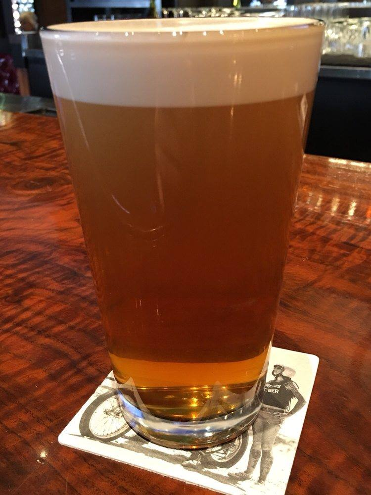 Boddington's ale at Murphy's Irish Pub in Sonoma, California.